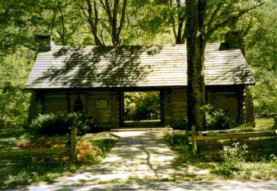 My own work.